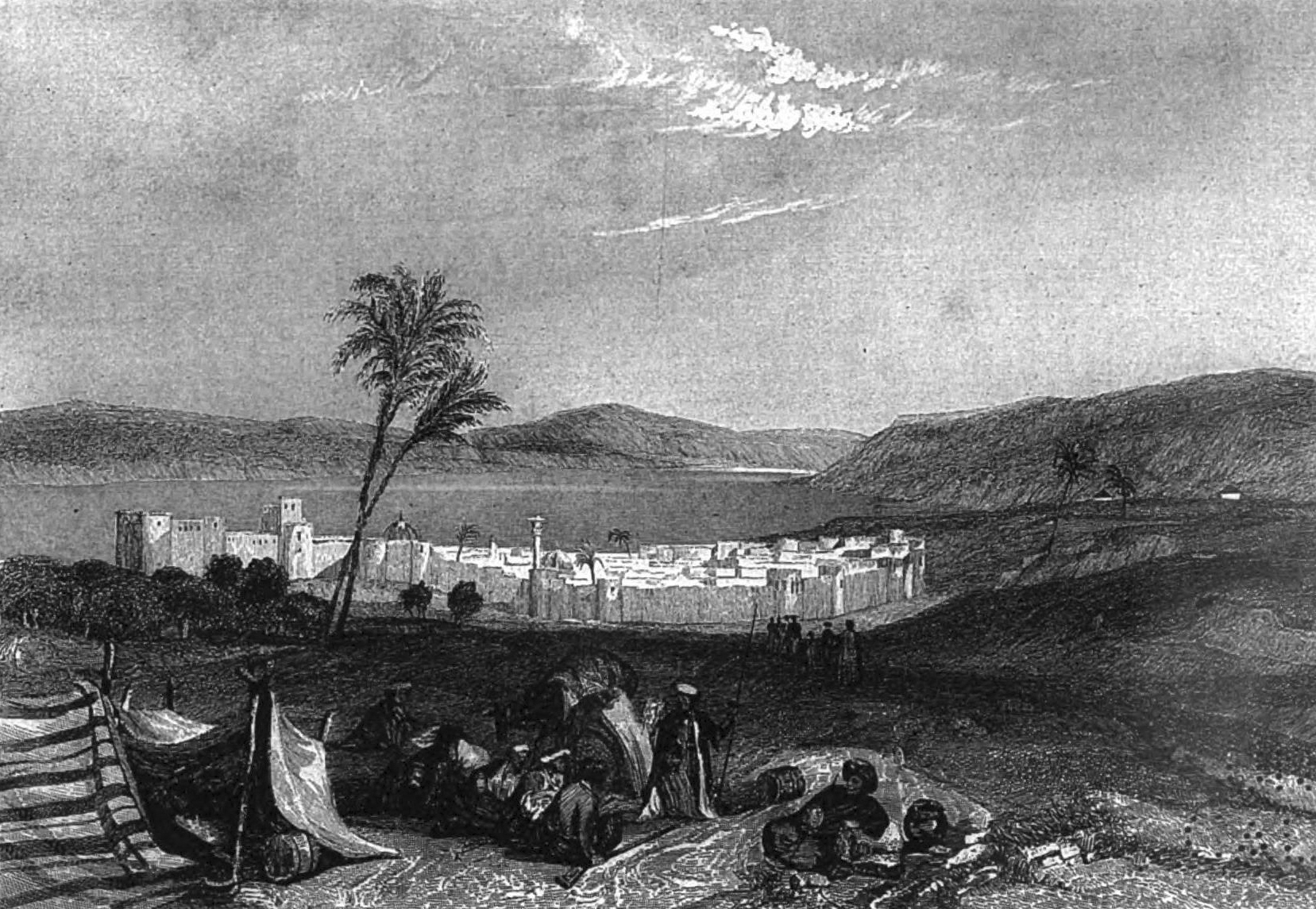 Tiberias and the Sea of Galilee